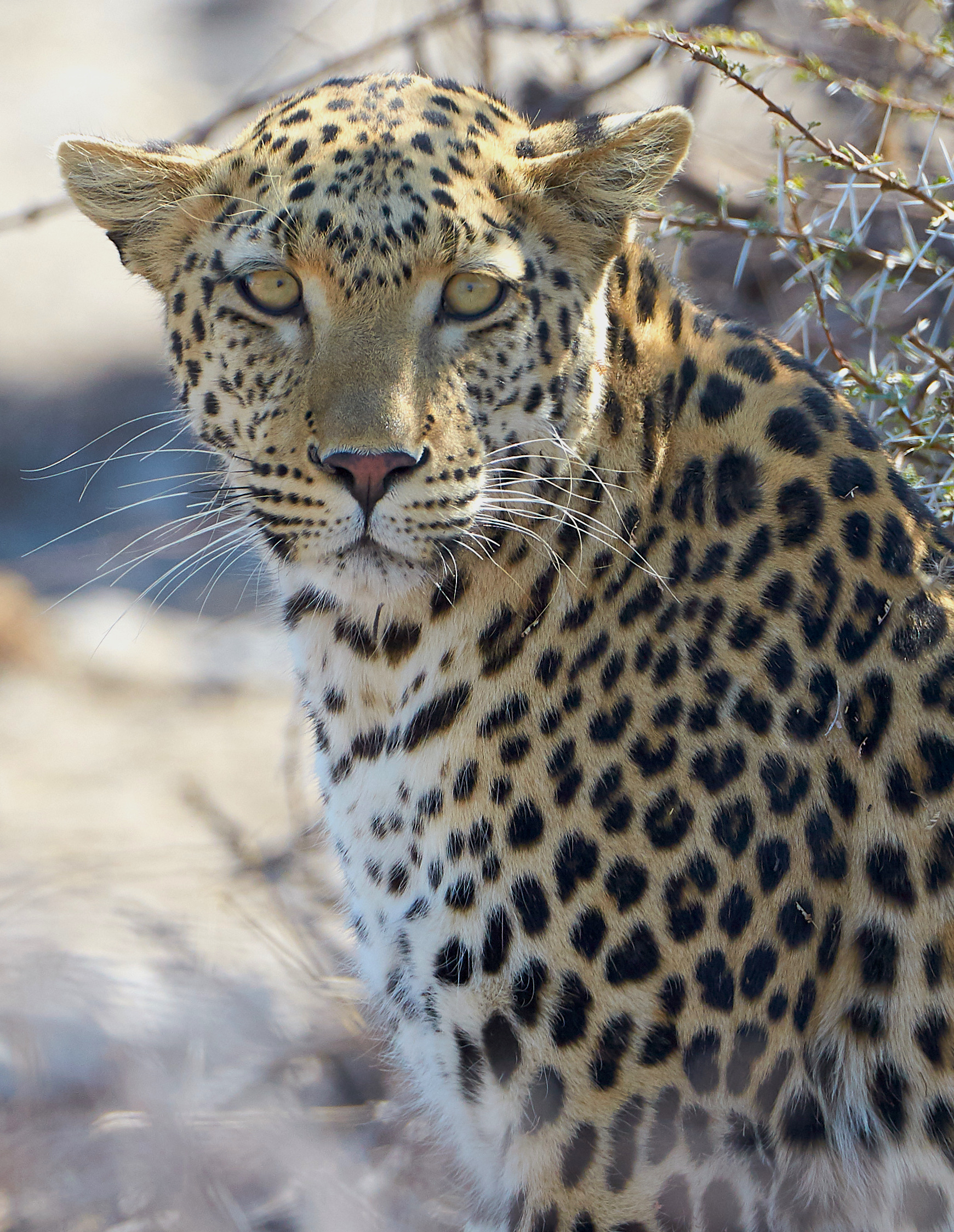 African Leopard (Panthera pardus pardus) awaking from a nap near the near Okevi waterhole in Etosha National Park (Namibia).